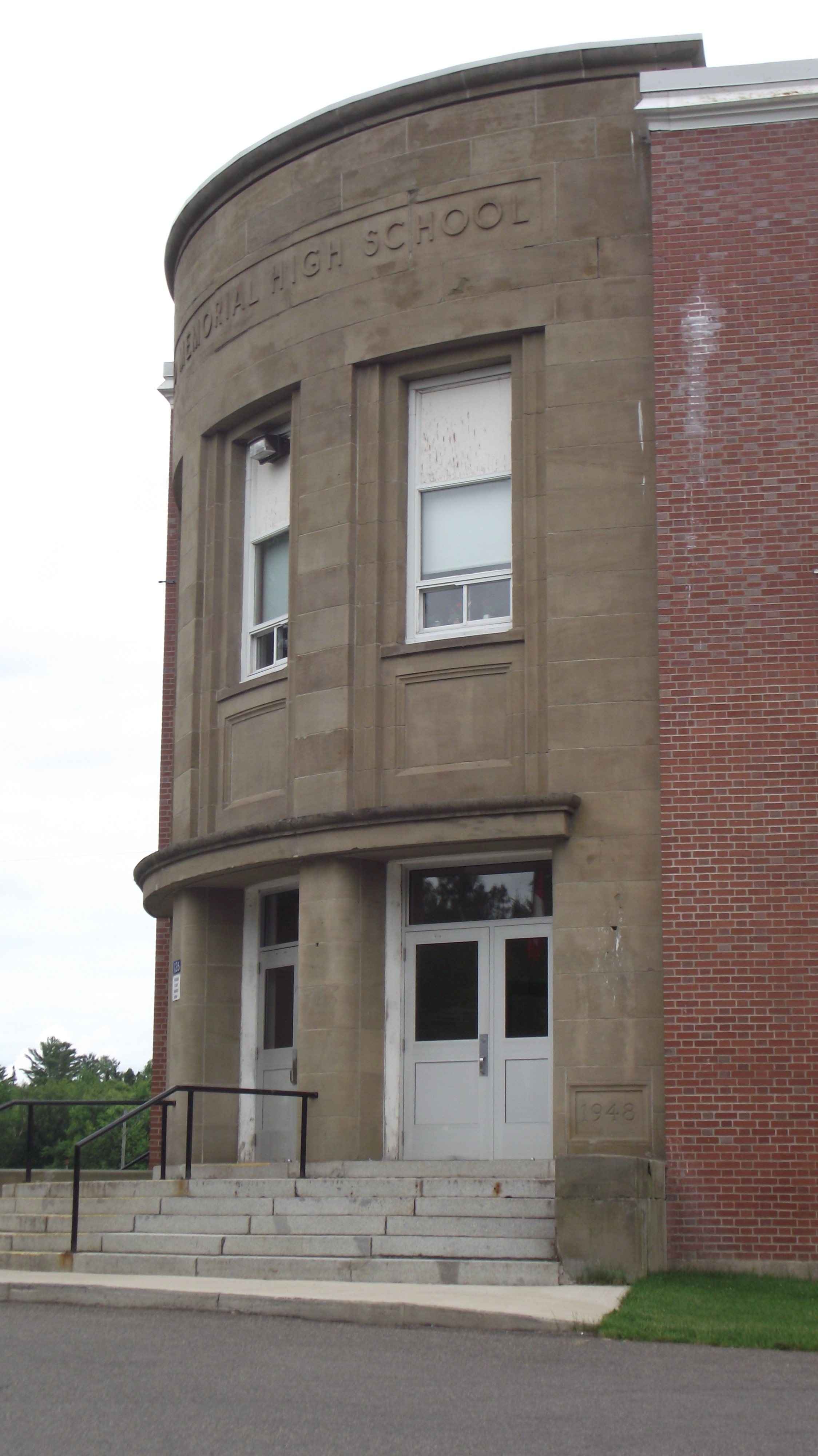 Photograph of the front corner of the Minto Memorial High School, established 1948, in Minto, New brunswick, Canada.